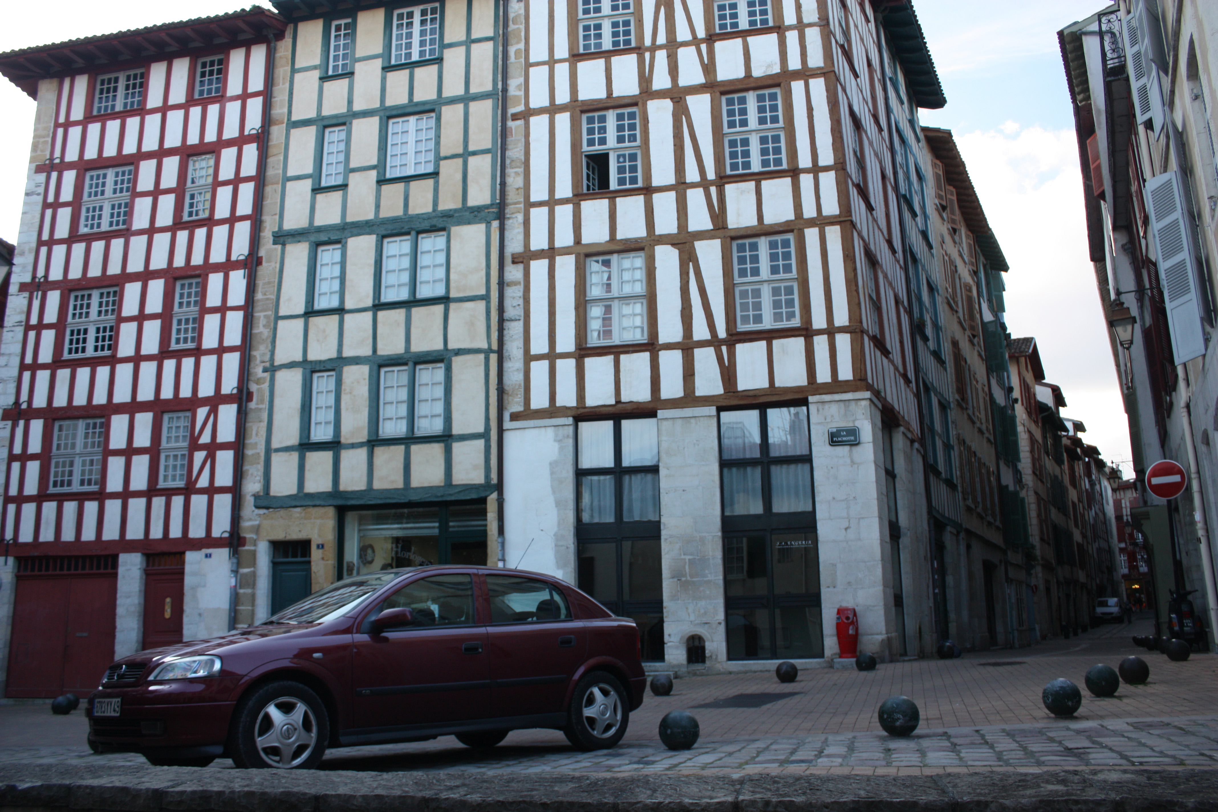 The "plachotte" (the little square place) is formed by the street and Passemillion street Lagréou to descend gradually to the tower of Sault